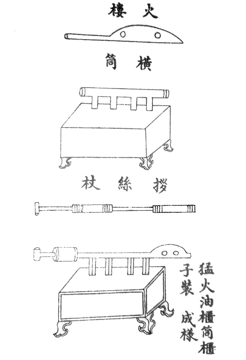 An 12th century Chinese flamethrower with a tank for petrol-like fluid (most likely Greek Fire that had been known to the Chinese since the early 10th century) and double-acting pump with two pistons so that it fires a continuous and unbroken stream of flame. This illustration originally appeared in the Wujing Zongyao military manuscript written in the year 1044 during the Song Dynasty of China. This picture also appears in Joseph Needham's book Science and Civilization in China: Volume 5, Chemistry and Chemical Technology, Part 7, Military Technology; the Gunpowder Epic.